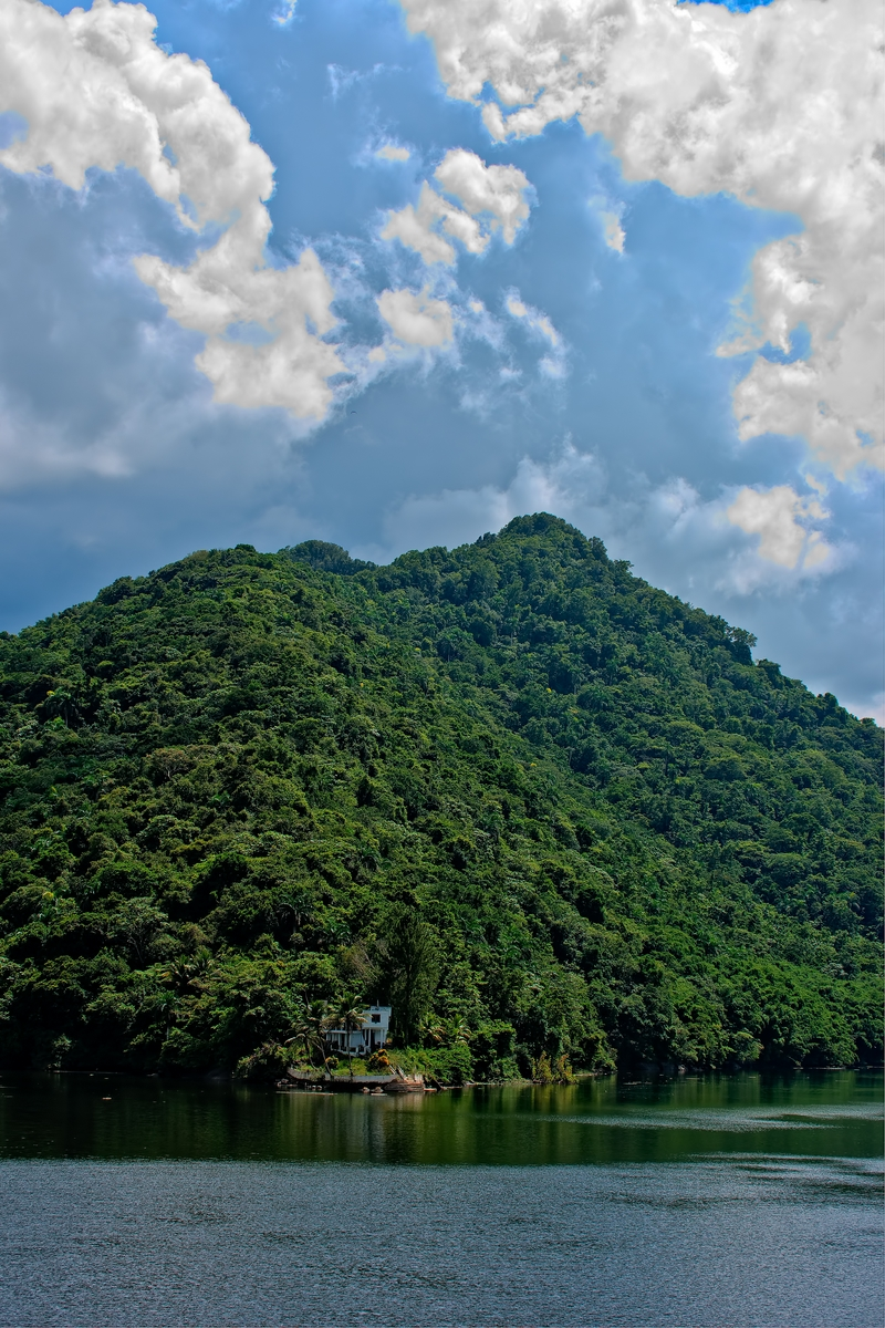 Green mountain on a lake in Ciales, Puerto Rico